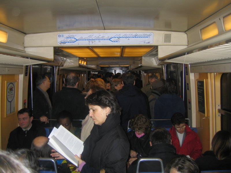 Inside an RER B.